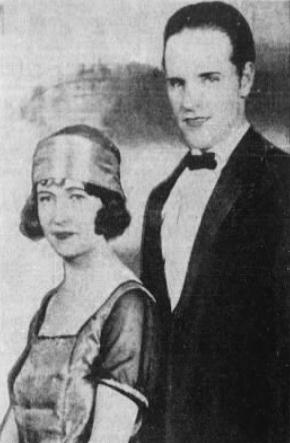 This photo depicts acrobat James Fitzpatrick with his wife, Florence, as they appeared around 1928 when they were playing together as James and Bernie Loster.